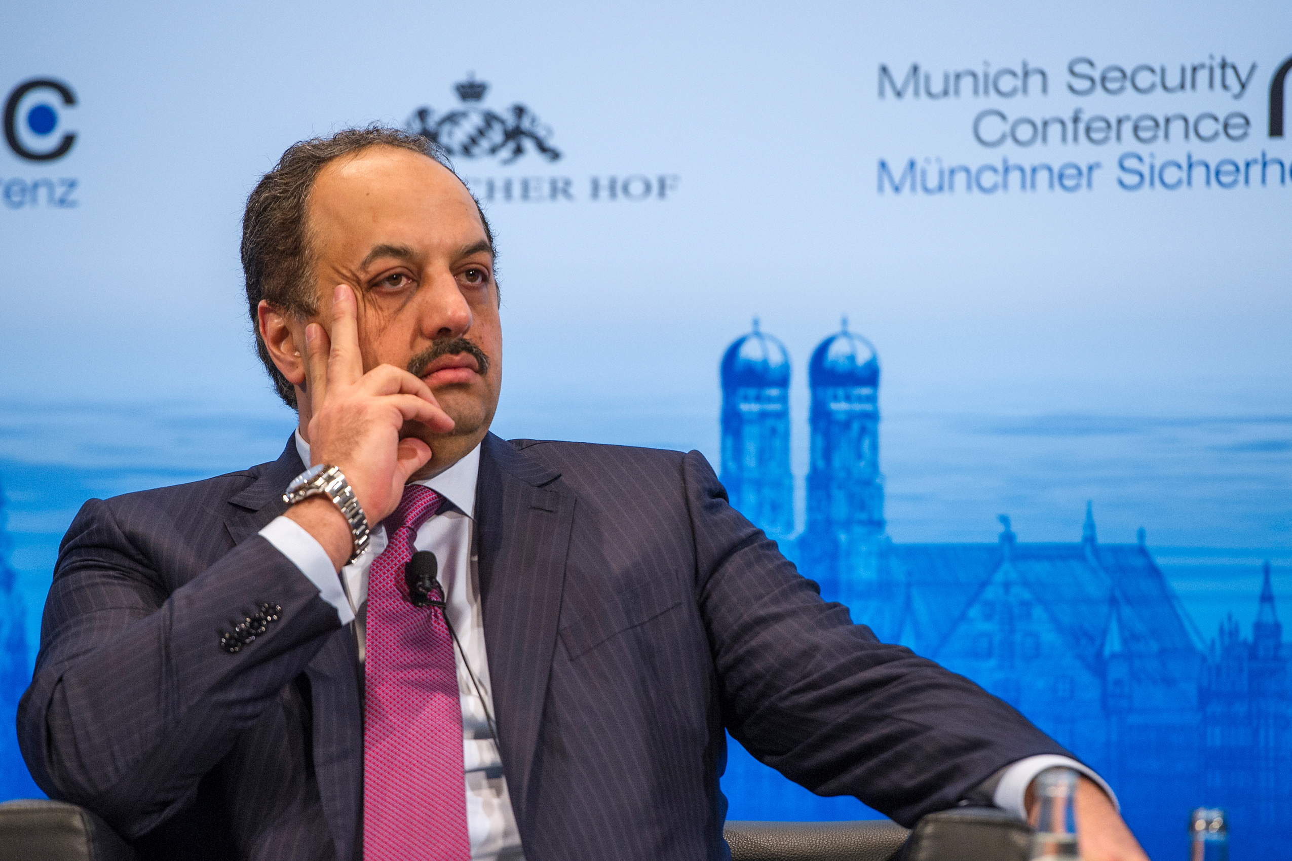 50th Munich Security Conference 2014: Khalid Mohamed A. Al-Attiyah: Khalid Mohamed A. Al-Attiyah (Minister of Foreign Affairs, State of Qatar).